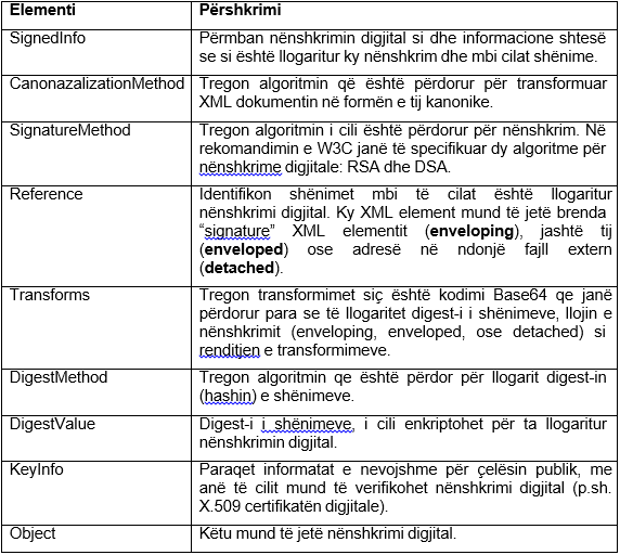 Pershkrimi